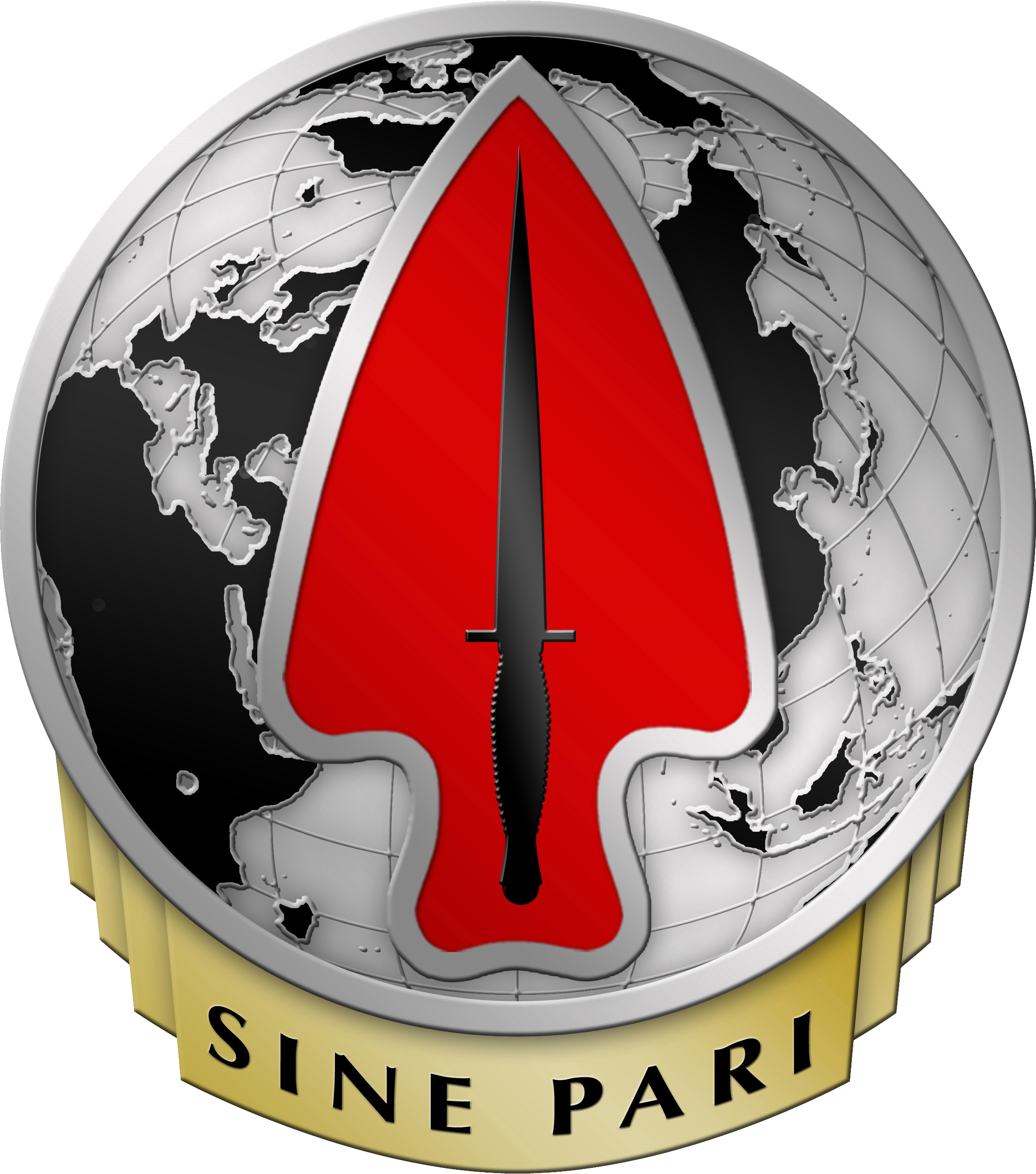 United States Army Special Operations Command DUI. February 25, 2013 USASOC changed their distinctive unit insignia to this.